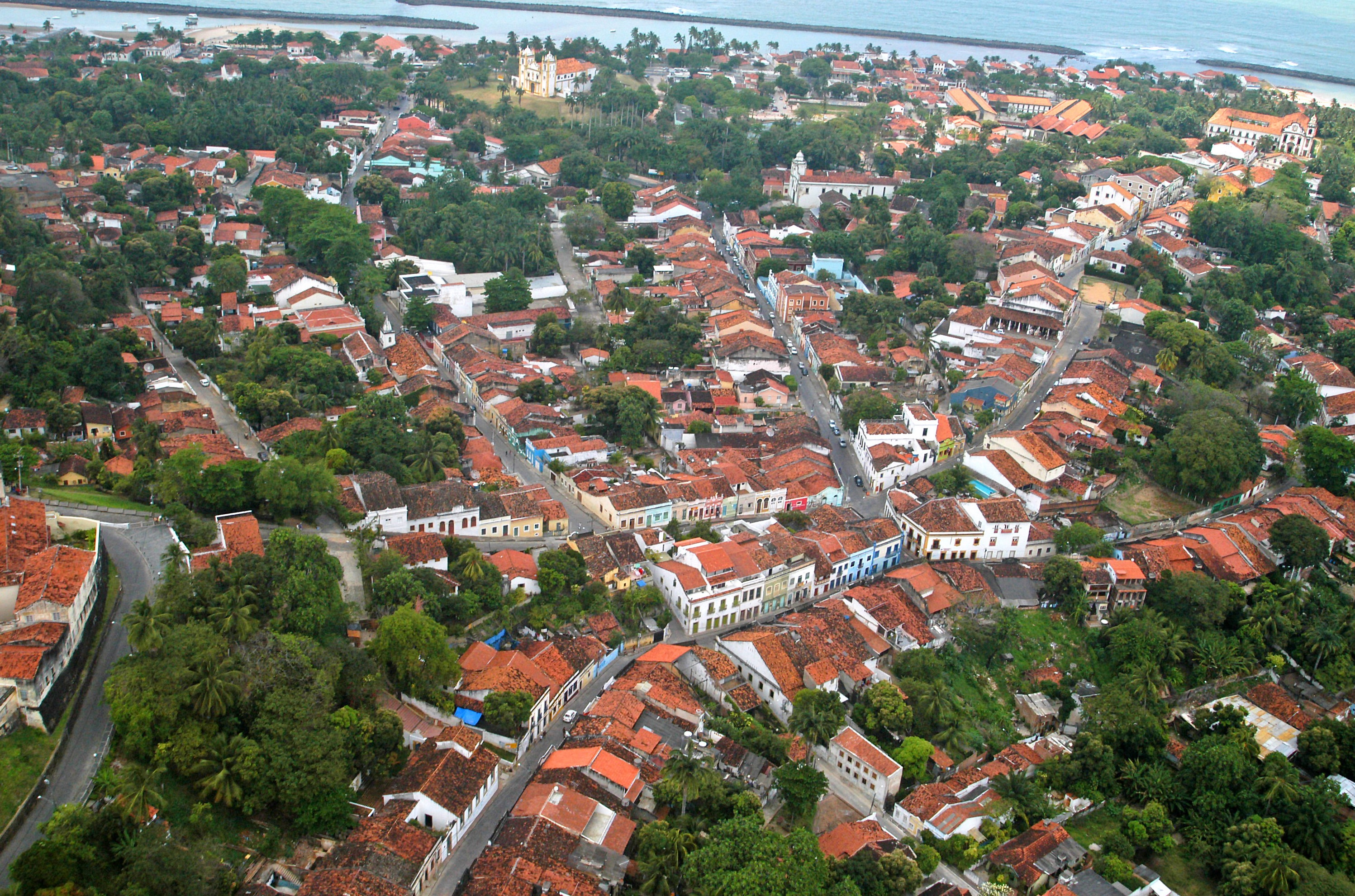 olinda